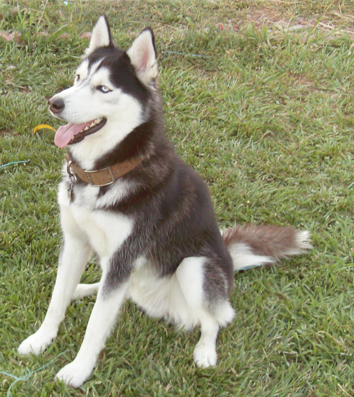 Th Best Dog Ever